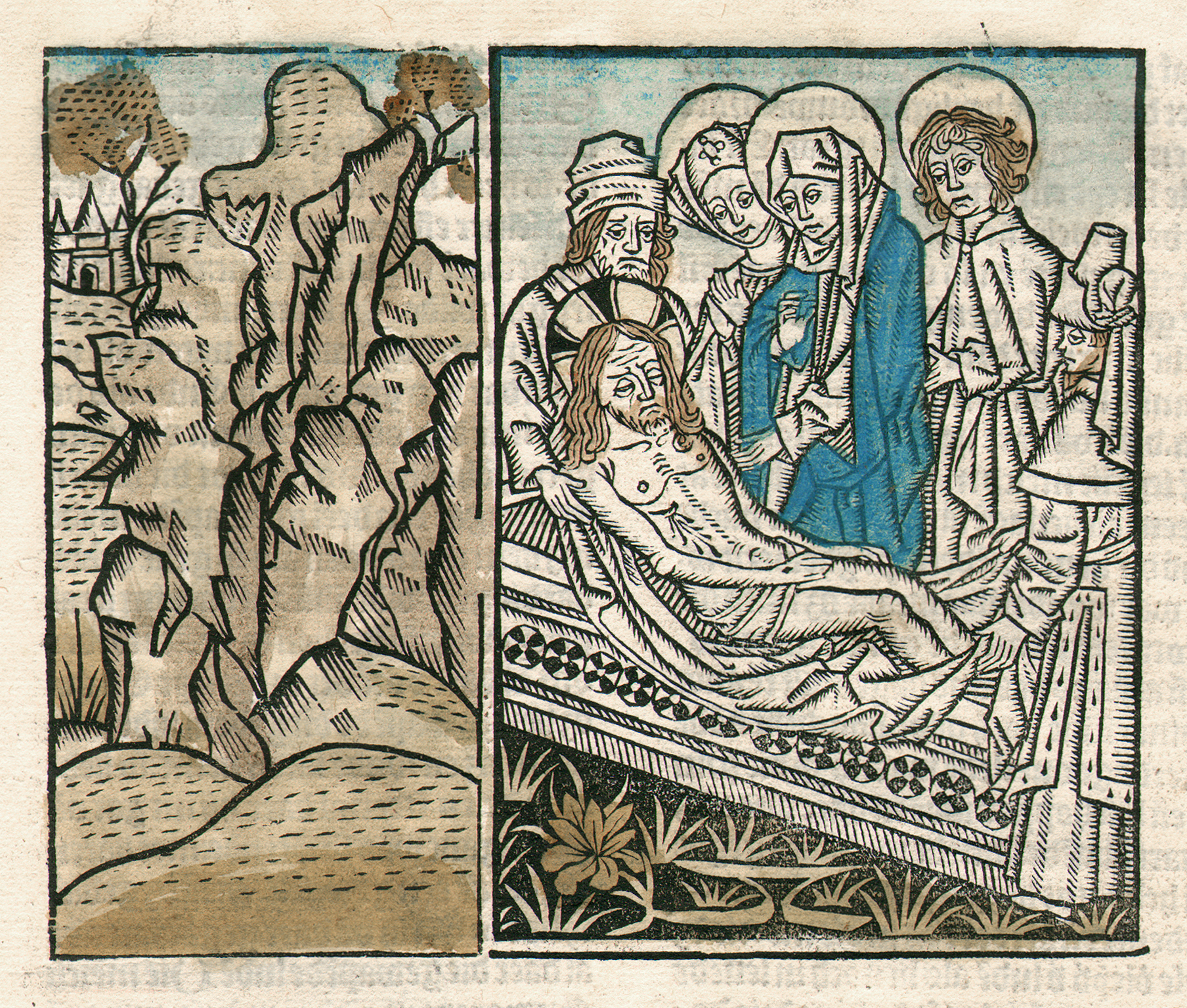 De Vita Christi. (The Book of the life of Jesus Christ). Ludolph of Saxony's (c.1300-1378). This is an original, incunable woodcut leaf guaranteed published on November 3, 1487. It was published in Antwerp by Gerard Lieu. The color is quite old if not original. The text is in Dutch. Published thirteen years after the printing of the first book in the southern Netherlands. Text in two columns of Gothic type.